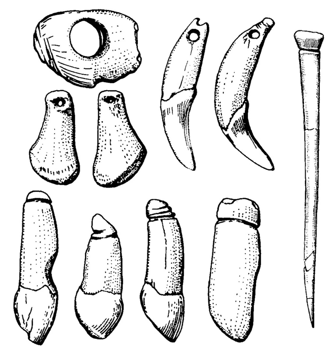 Adornment of animal tooth and bone awl. Chatelperron culture